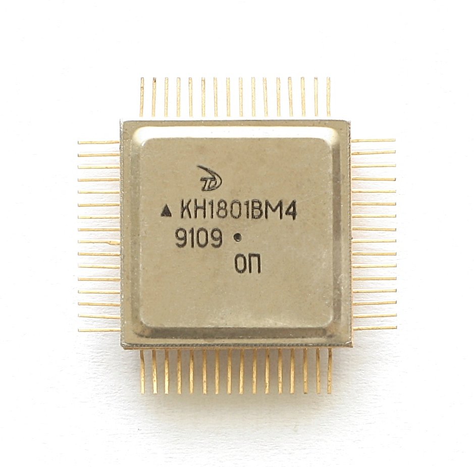 USSR CPU KN1801VM3. Engineering Sample.